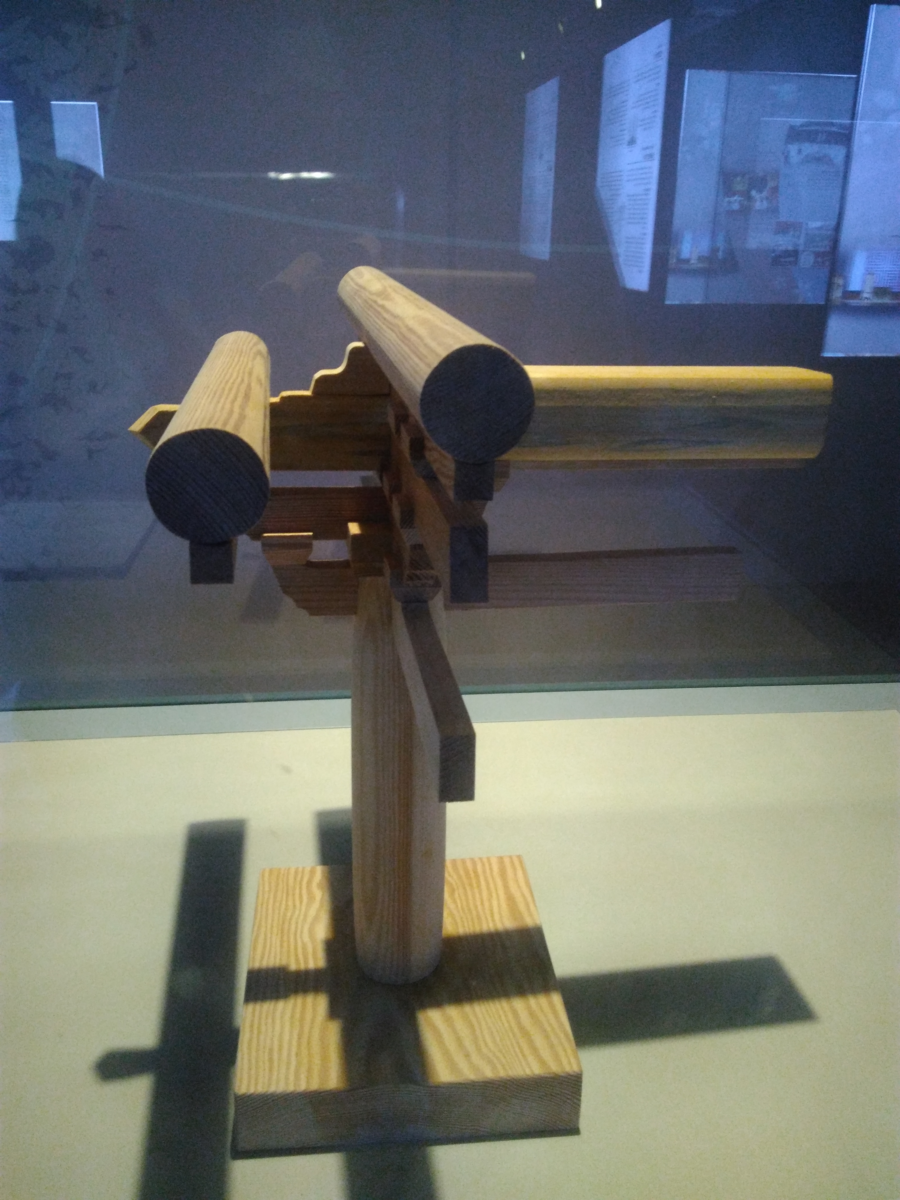 Model at the Buseoksa museum.